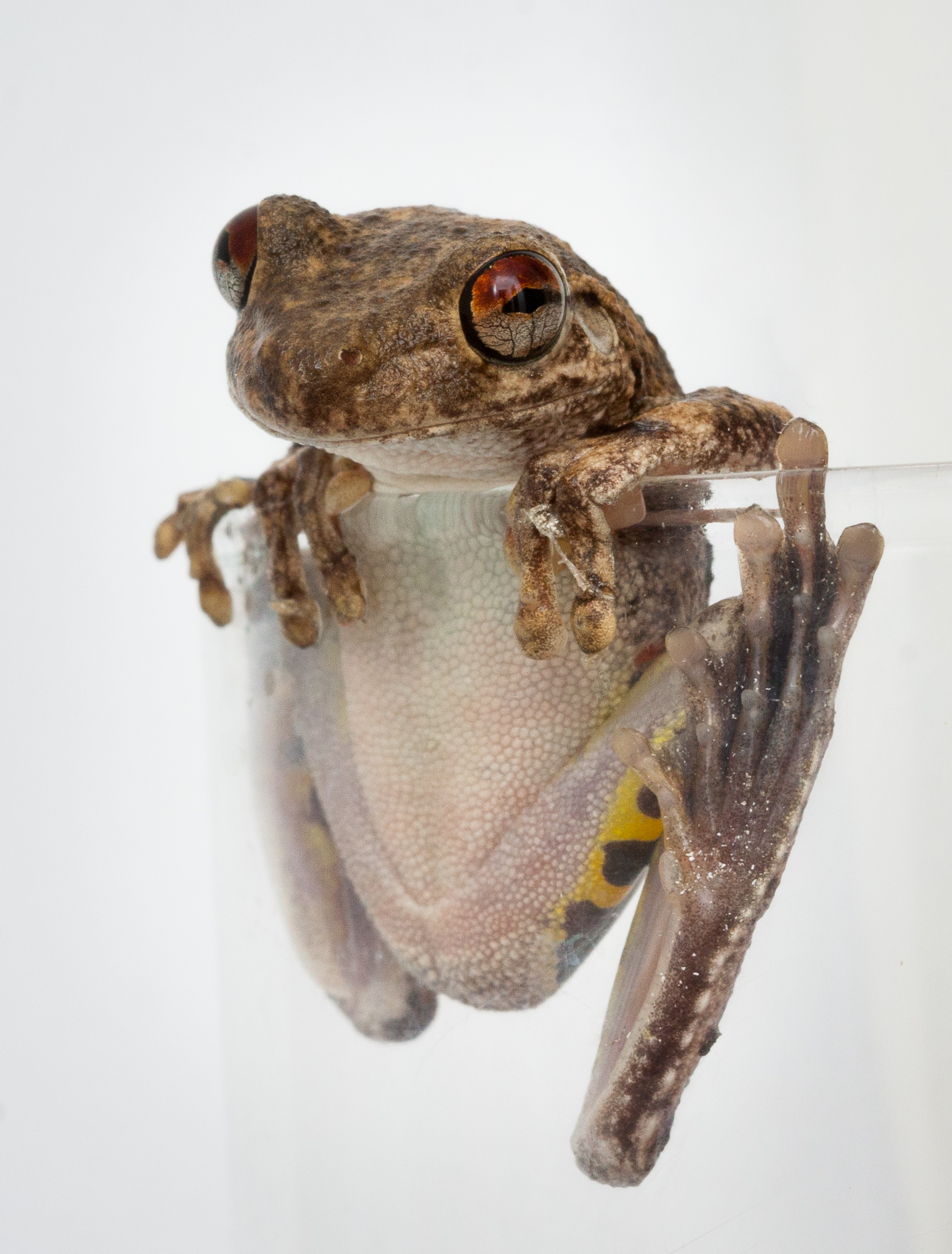 Adult Roth's tree frog on the edge of a drinking glass.